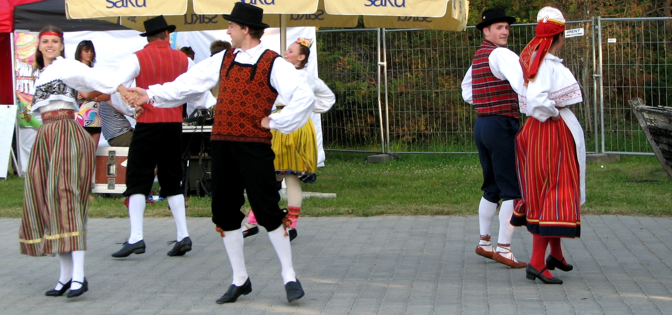 Savijalakesed performing in Õlletoober 2010